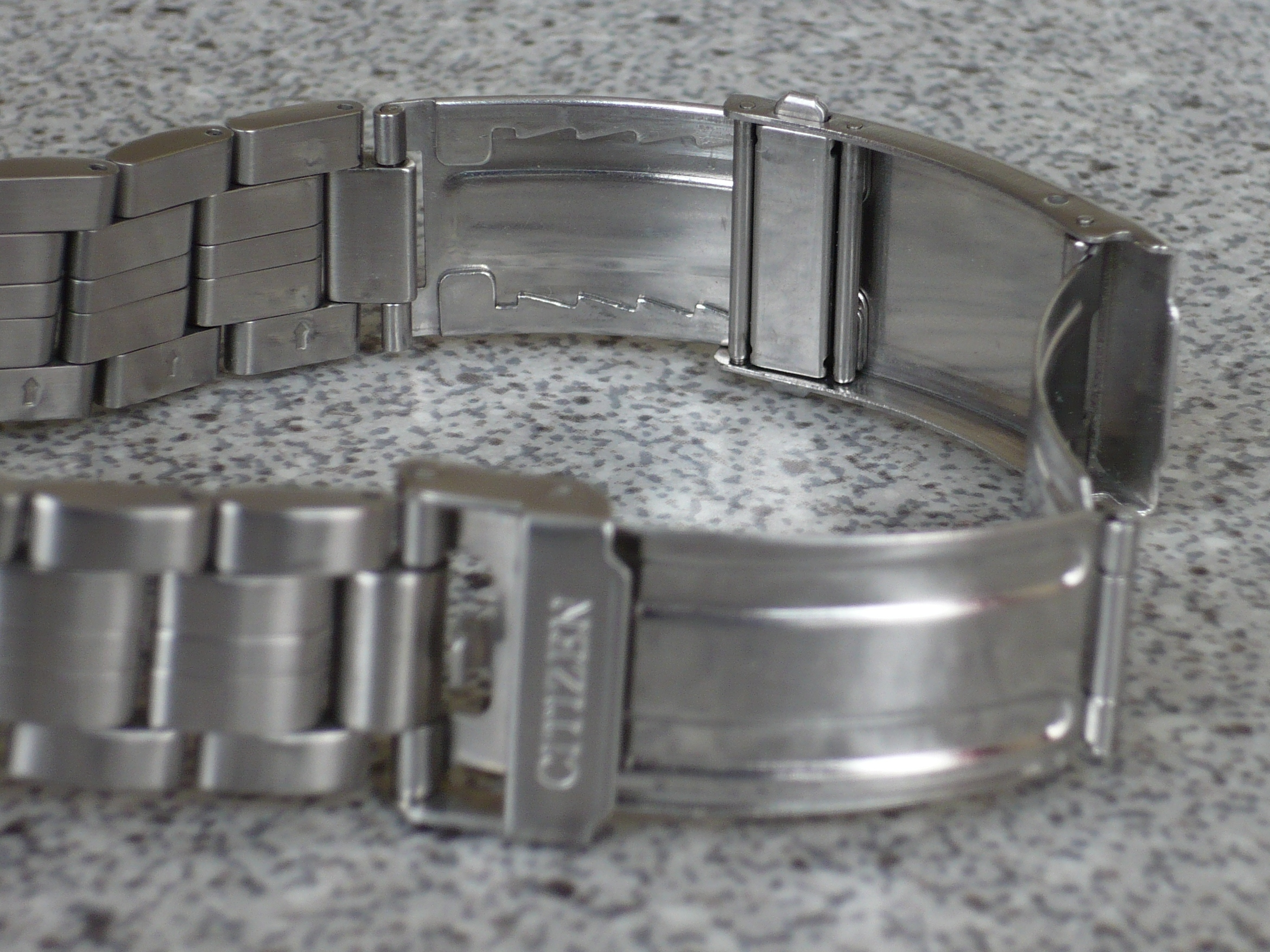 To facilitate wearing a diving watch over a diving suit sleeve bracelets often have a (concealed) Diver’s extension deployment clasp by which the bracelet can be appropriately extended.